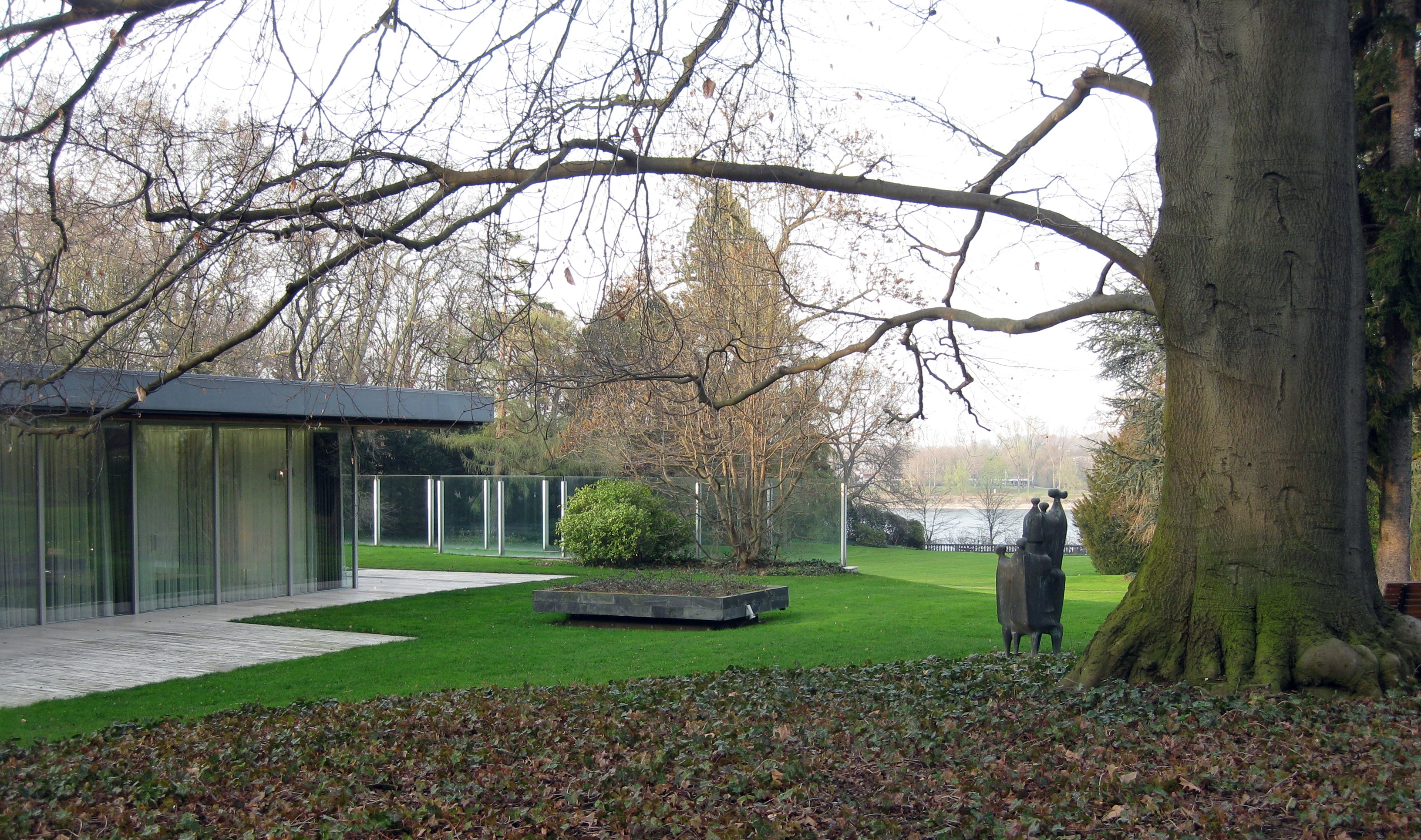 Germany, Bonn: the former chancellor's bungalow with windows made ​​of bulletproof glass; view to the Rhine river.